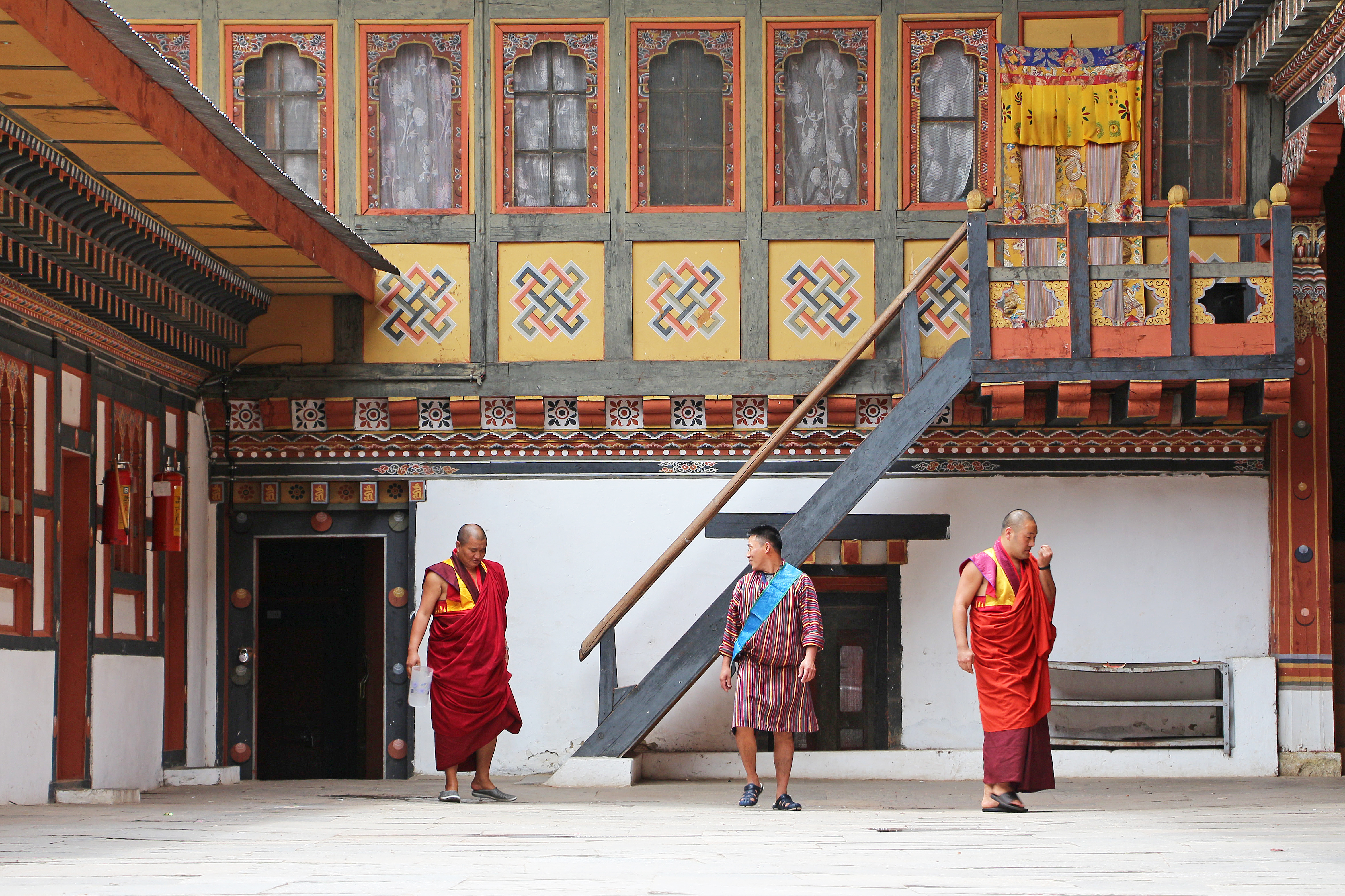 Tashichho Dzong, Thimphu, Bhutan